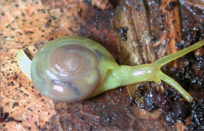 Photo of Tamayoa decolorata.